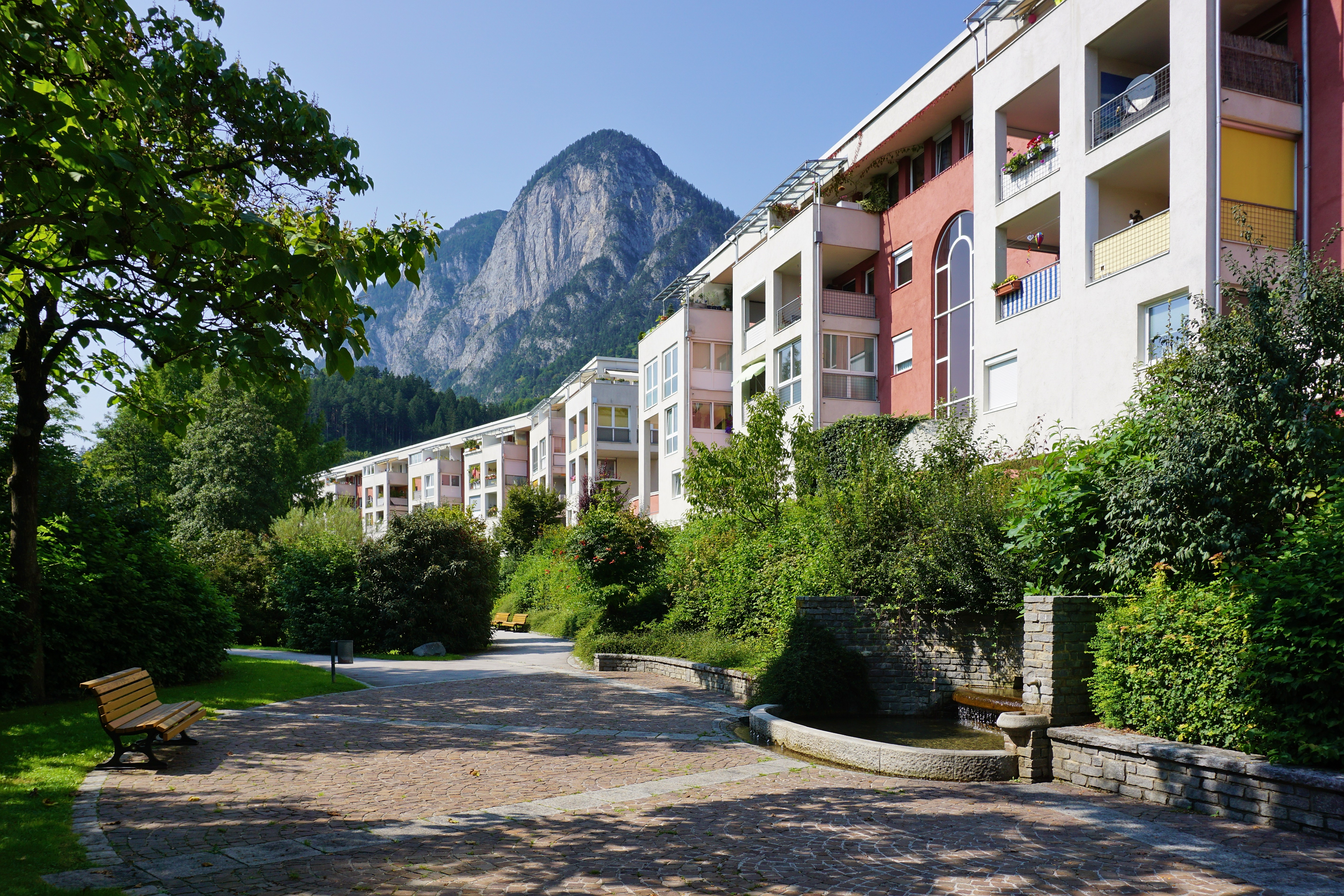 Peerhofsiedlung